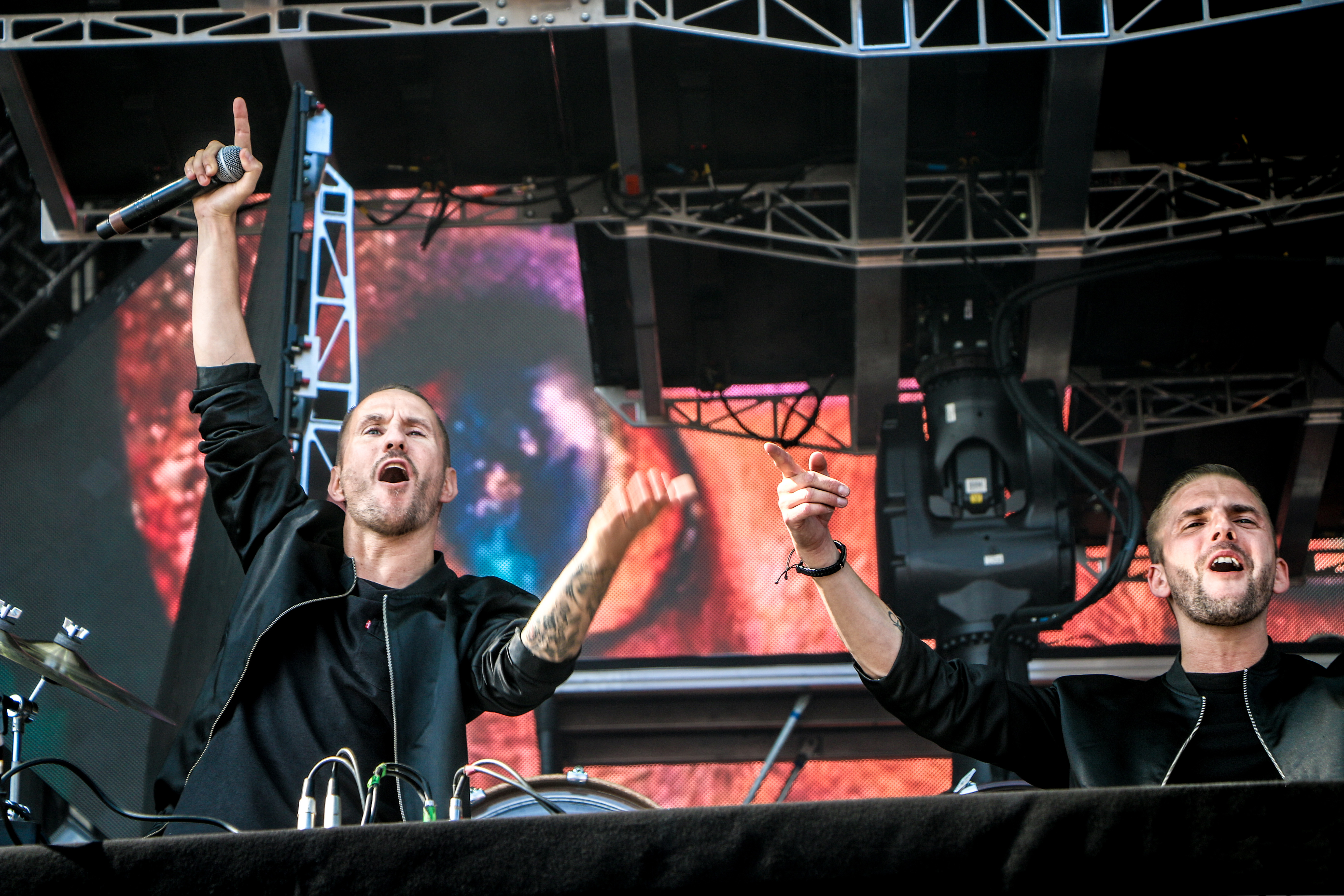 Galantis at VELD 2016 (?)